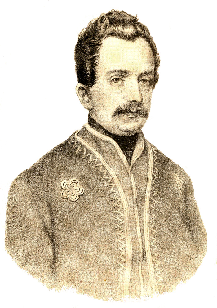 Ljudevit Gaj